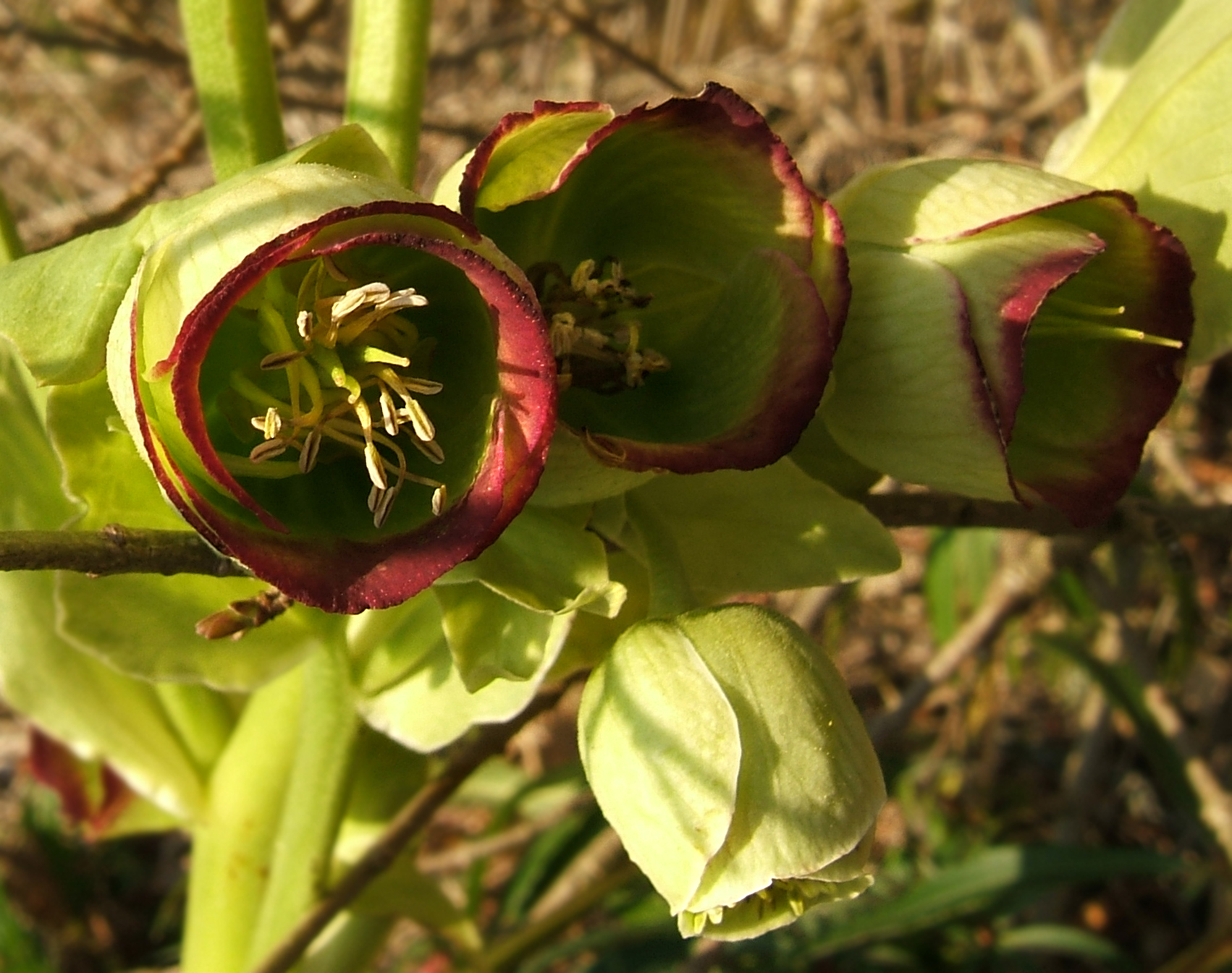 Stinking hellebore, Dungwort, or Bear's foot located at 850/900 m, Swabian Alb, Baden-Württemberg, Germany Aragonés: Ixarruego, chigüerre, broxera